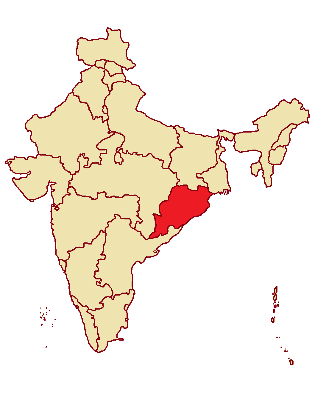 States and Union Territories of India, as of 1964-1965, i.e. between the creation of the state of Nagaland in 1963 and the Punjab Reorganization Act, 1966. Map does not include territories claimed by India but controlled by other countries. Borders not necessarily to scale. Based on File:States_of_India_(1964).png